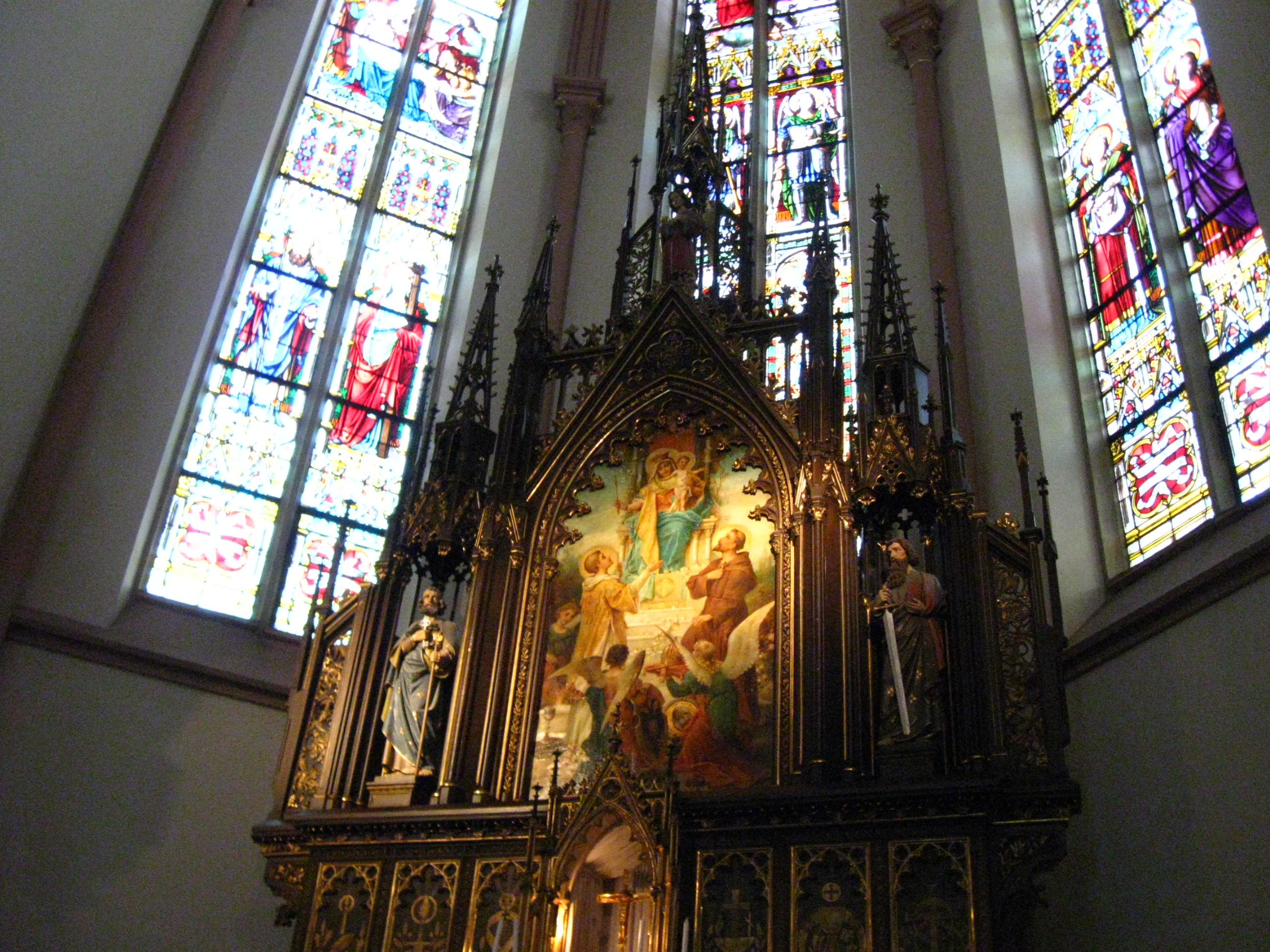 High altar of Breitensee parish church, Vienna